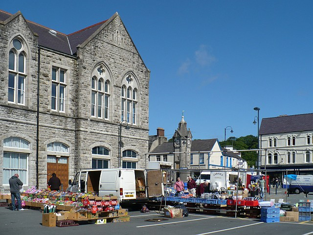 Market day, Llangefni Market days are Thursday and Saturday